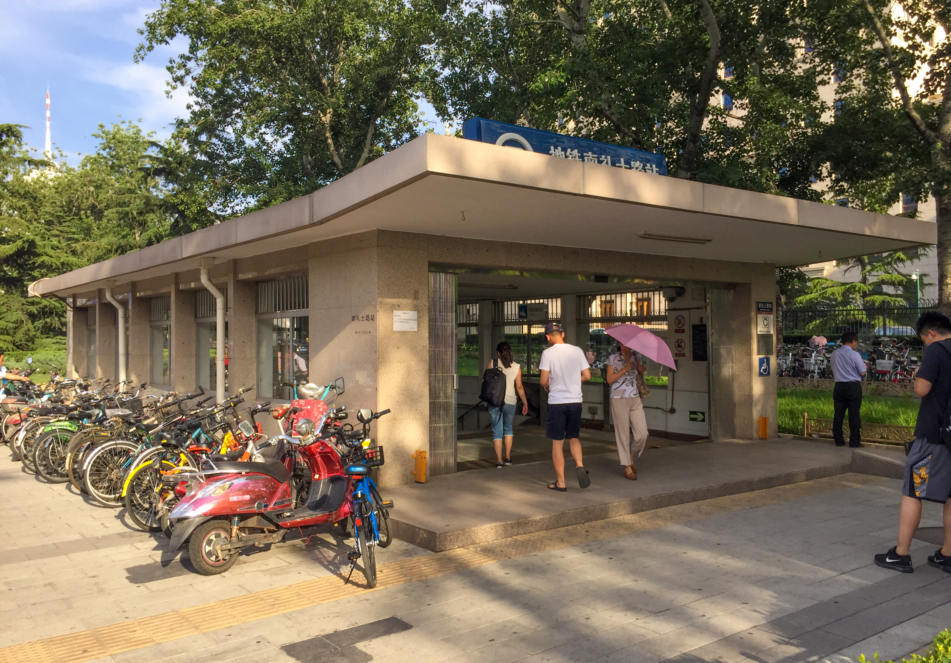 Maybe the only two old-school wide exit pavilions left.